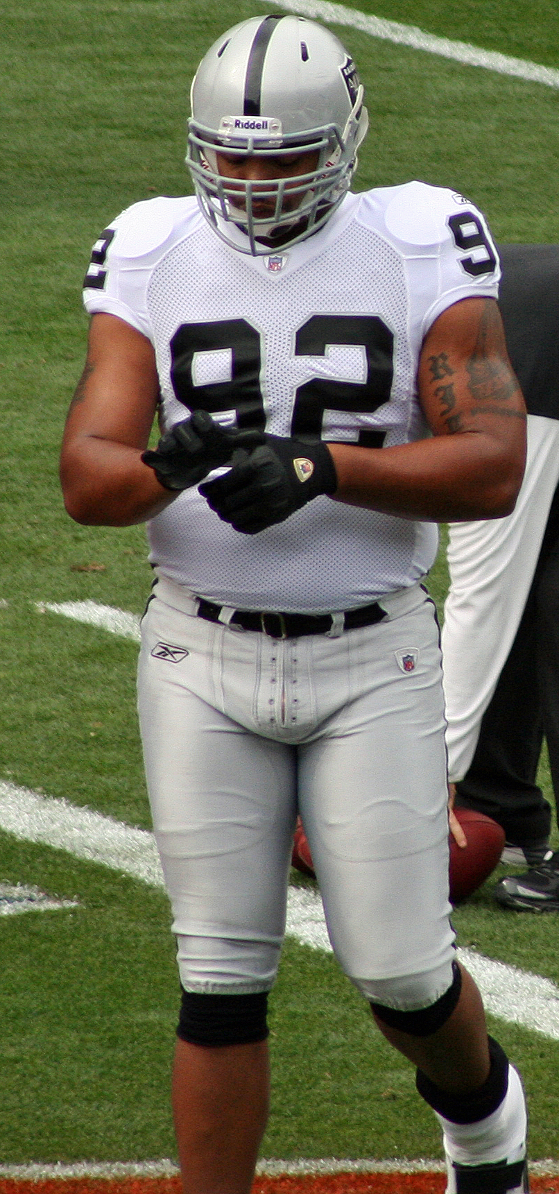 Richard Seymour, a player on the Oakland Raiders American football team.